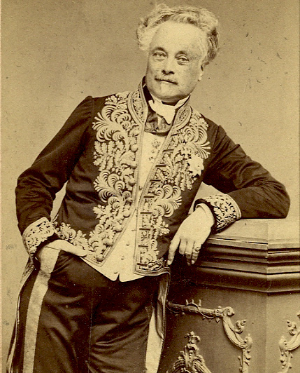 A portrait of Félicien de Saulcy.